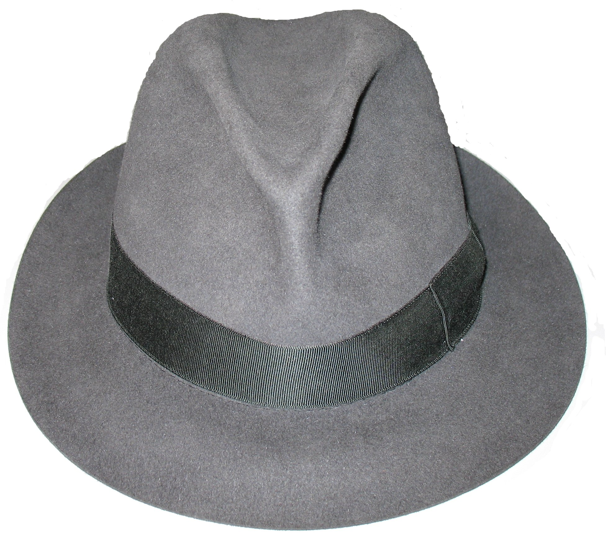 A fedora hat, made by Borsalino.